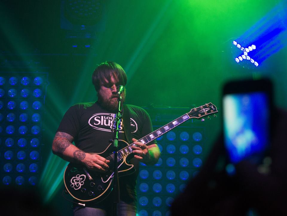 Travis performing at the Mercury Ballroom.